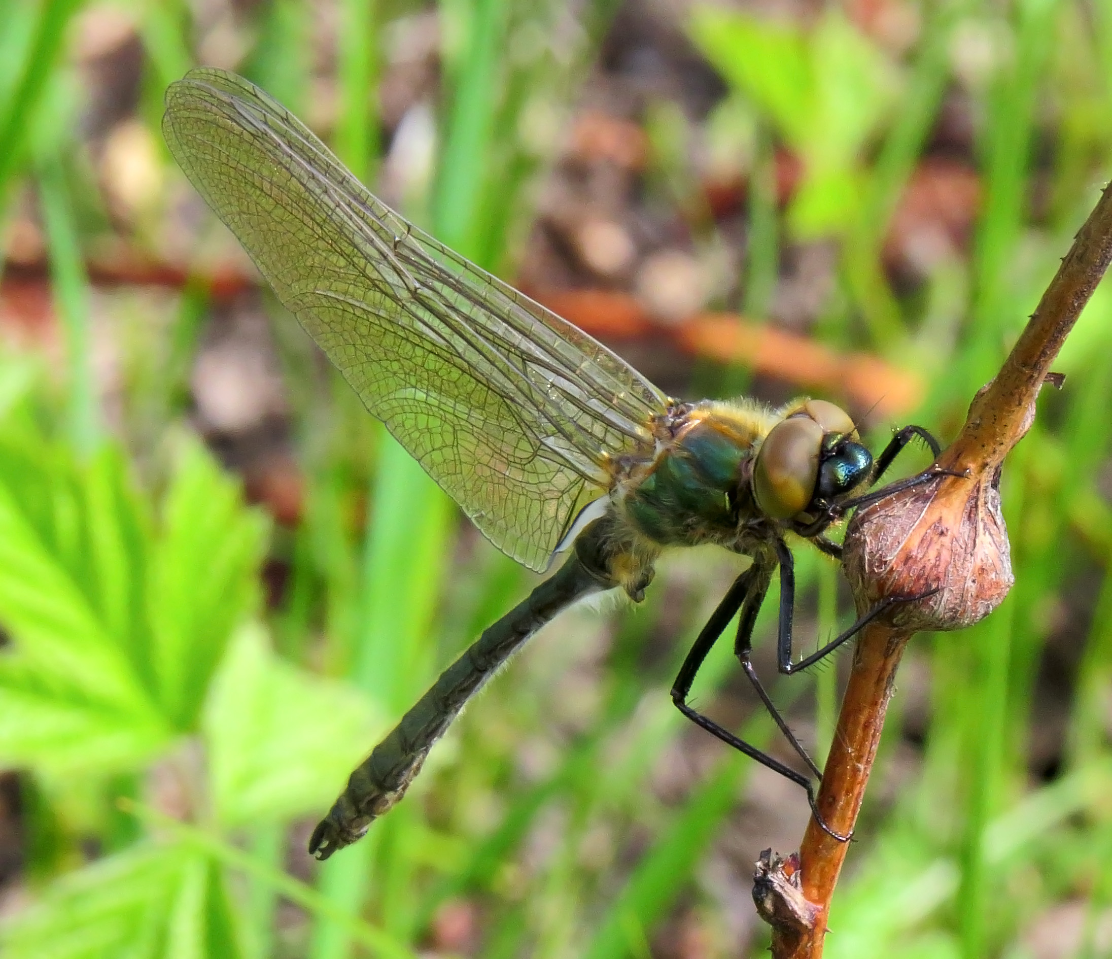 Cordulia aenea near Male Kilnyshche lake in Muromets island, Vyshhorod raion, Kiev oblast, Ukraine. Lasioptera rubi gall on wild Rubus idaeus